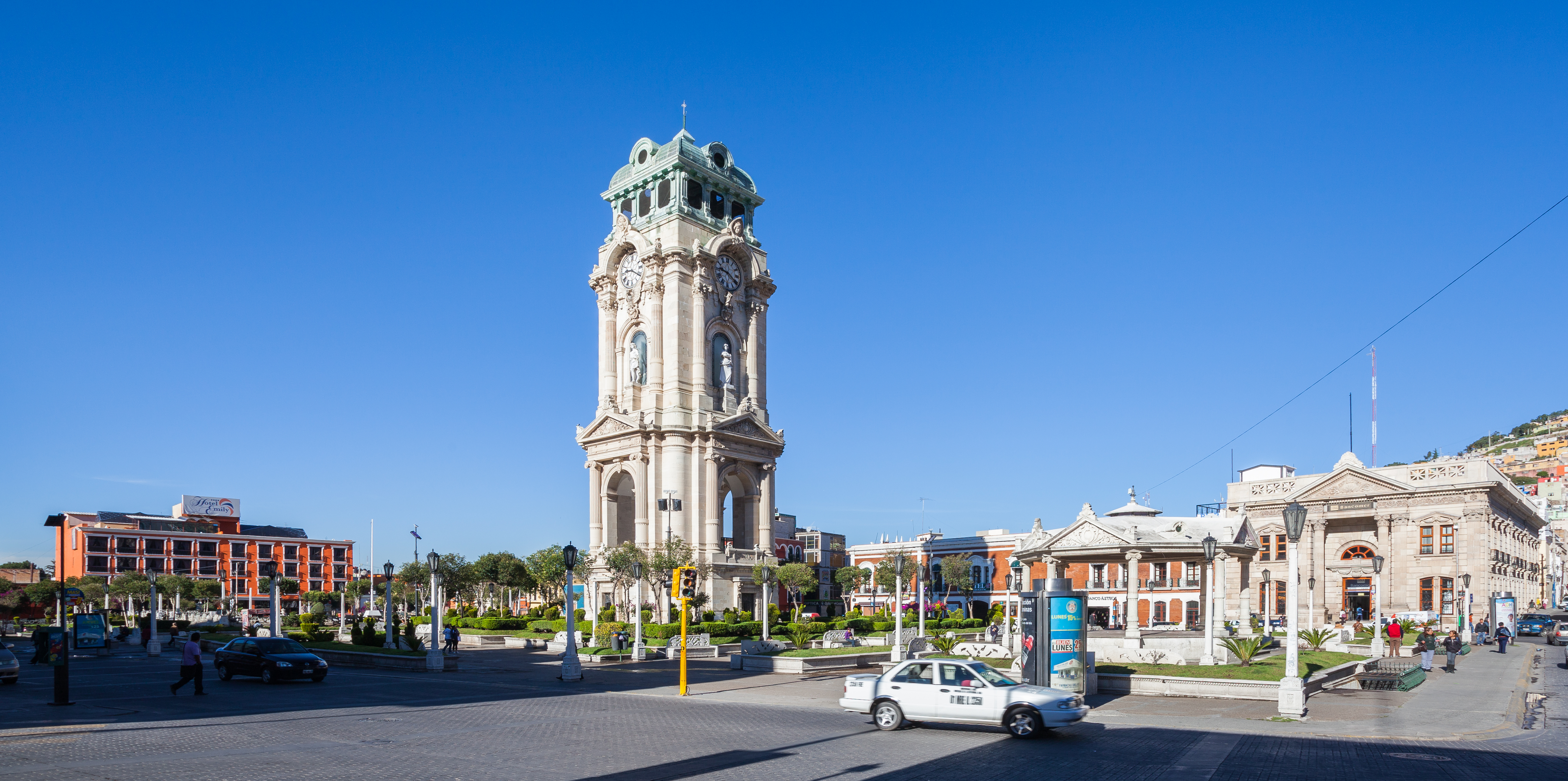 Monumental Clock, Pachuca, Hidalgo, Mexico